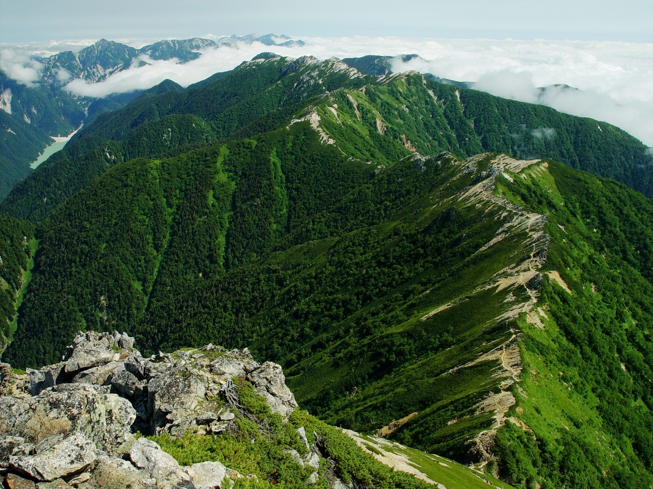 Ridge from Mount Otensho (Otensho-dake) to Mount Tsubakuro (Tsubakuro-dake), seen from Mount Otensho in Hida Mountains, Japan.